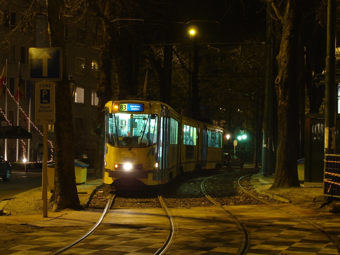 Brussels tram route 83 at it terminus montgomery waiting for his mision to Berchem Station.